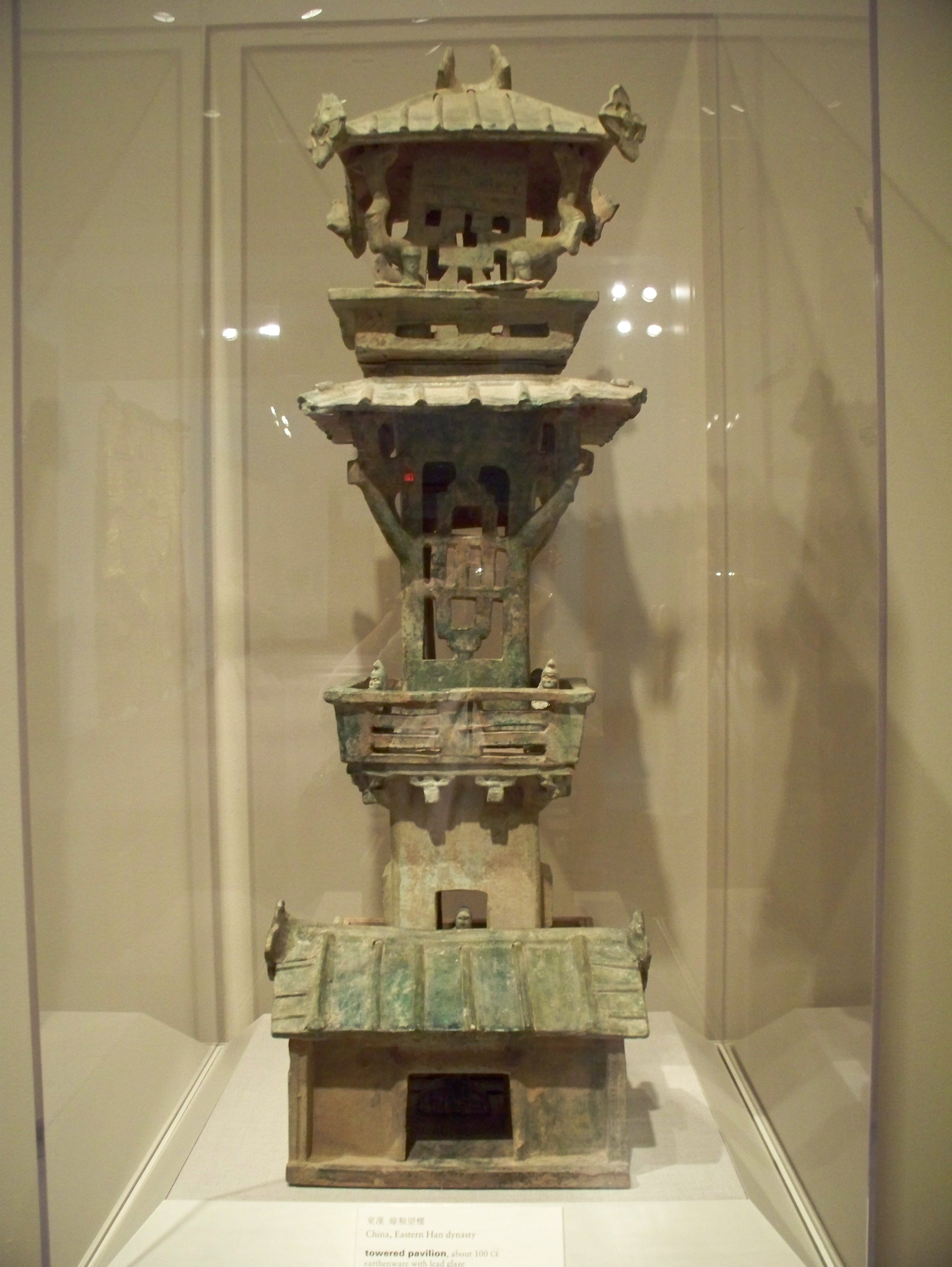 A Chinese lead-glazed ceramic model of a pavilion tower, made circa 100 AD during the Eastern Han Dynasty.